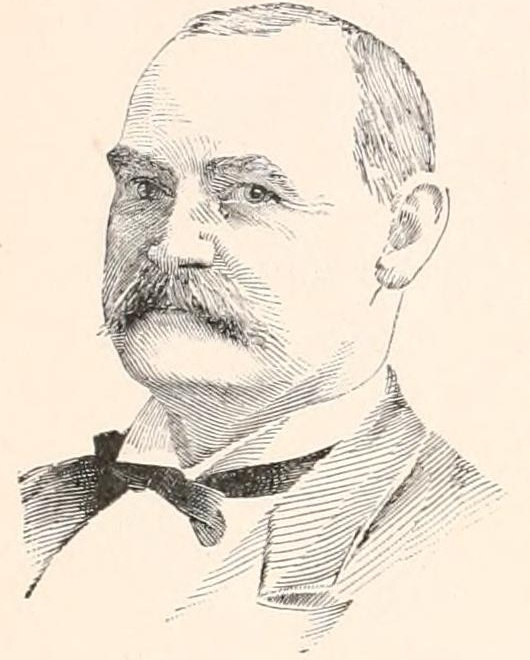 James William Hyatt (September 19, 1837 – March 12, 1893) was Treasurer of the United States from 1887 to 1889. He had previously served as Bank Commissioner for the State of Connecticut, and United States Bank Examiner for Connecticut and Rhode Island. He served as a Democratic member of the Connecticut House of Representatives in 1875 and 1876 and member of the Connecticut Senate in 1884. He also served as Warden of the Borough of Norwalk, Connecticut for several terms between 1877 and 1887.